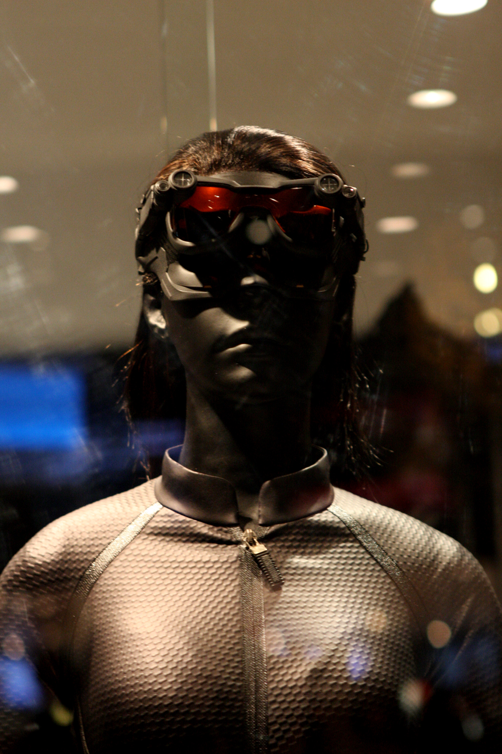 Mannequin of Catwoman at The Dark Knight Rises premiere in Sydney.